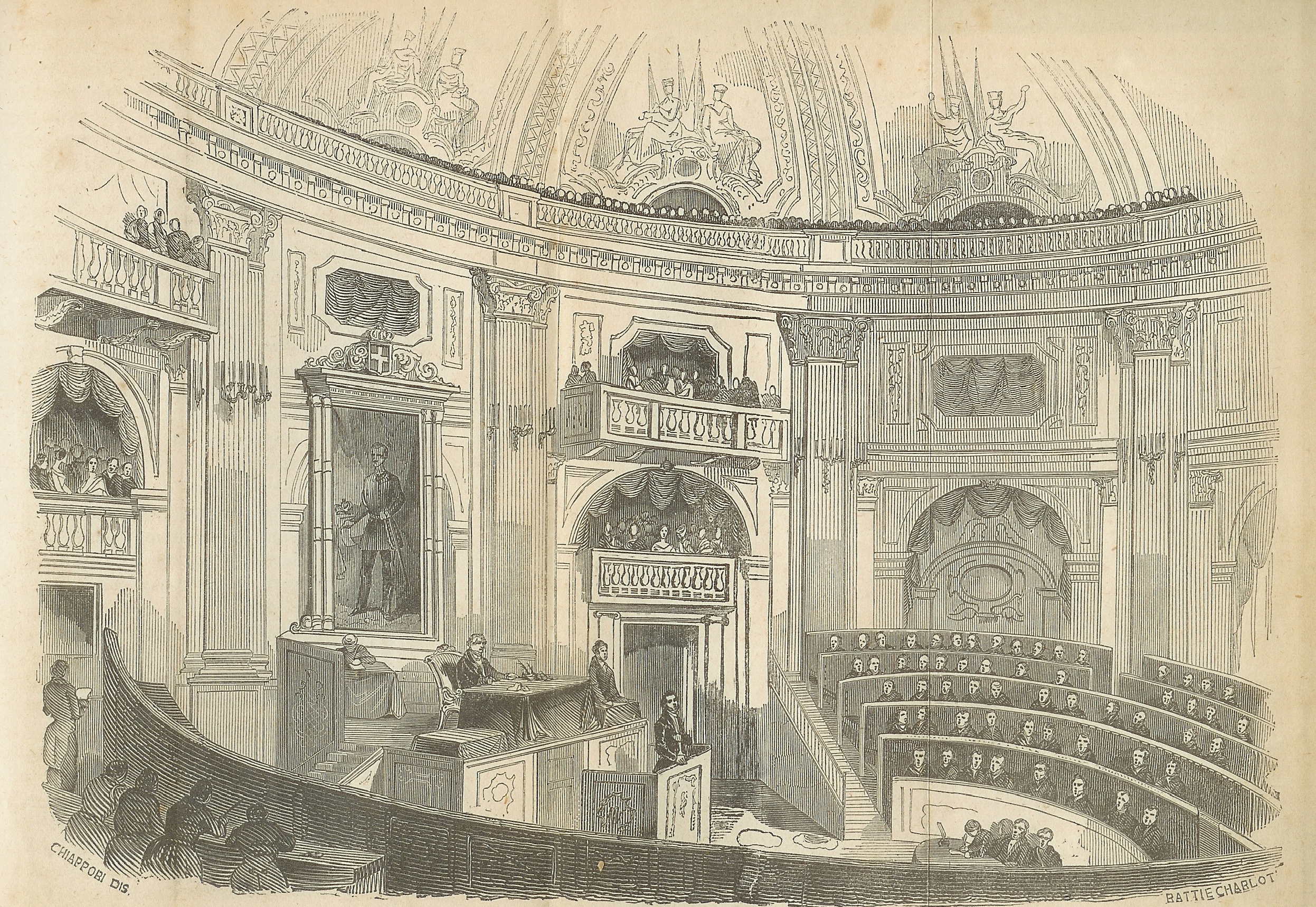 Engraving representing the Camera dei Deputati (Lower Hall of the Parliament) of the Kingdom of Sardinia (1852), in Carignano Palace, Turin.